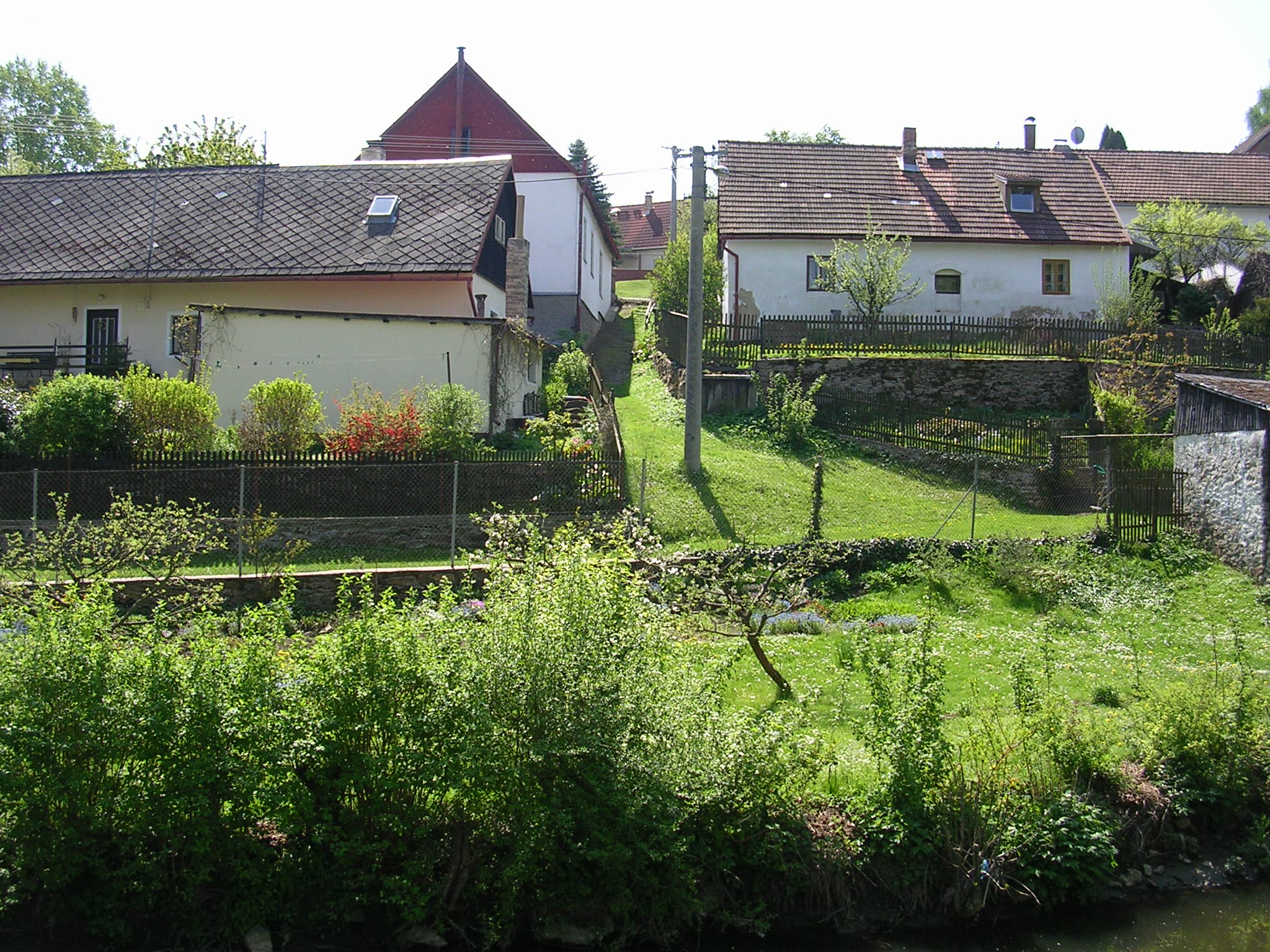 Důl-Nová Ves, Vysočina Region, the Czech Republic.